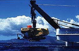 Pisces V being launched from research vessel R/V Kaimikai-o-Kanaloa. Pisces V is a three-person, battery-powered, one-atmosphere submersible operating with one pilot and two observers. Dive duration is six to eight hours, with a depth capacity of 200 m (6300 ft). It offers scientists direct observation, photographic and video records, instrument placement, sample collecting, and environmental monitoring.